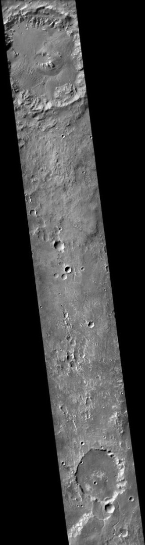 Vinogradov Crater, as seen by ctx